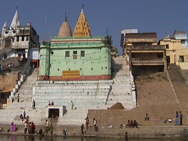 See Varanasi Development Cooperation Handbook/Stories/Responsible Development - Varanasi The Varanasi Heritage Dossier Kautilya Society Play media Vrinda Dar - How we got involved in heritage protection of Varanasi